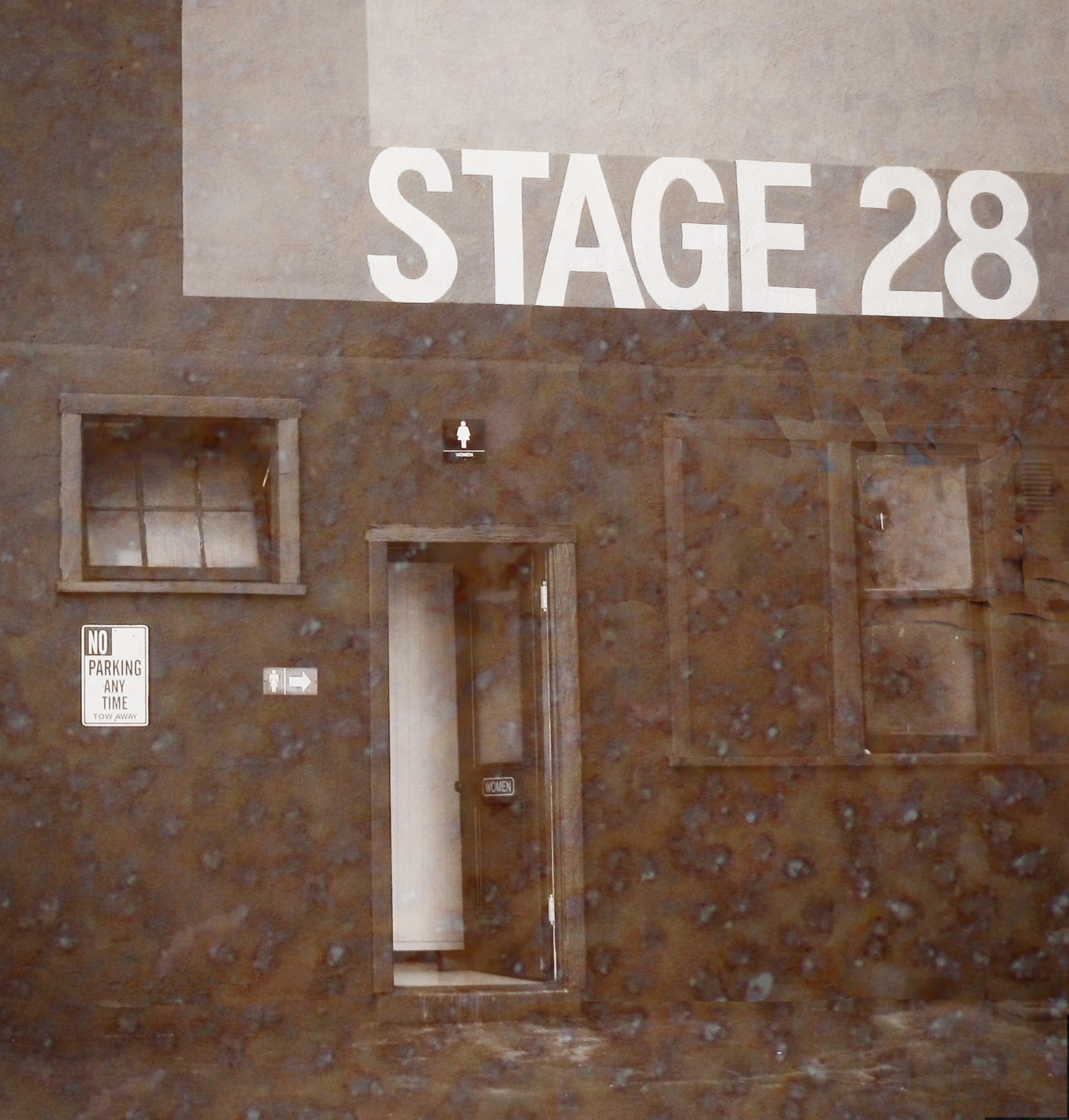 The exterior of Soundstage 28 at Universal Studios Hollywood, commonly called the "Phantom Stage" after the 1925 film The Phantom of the Opera which was filmed there.